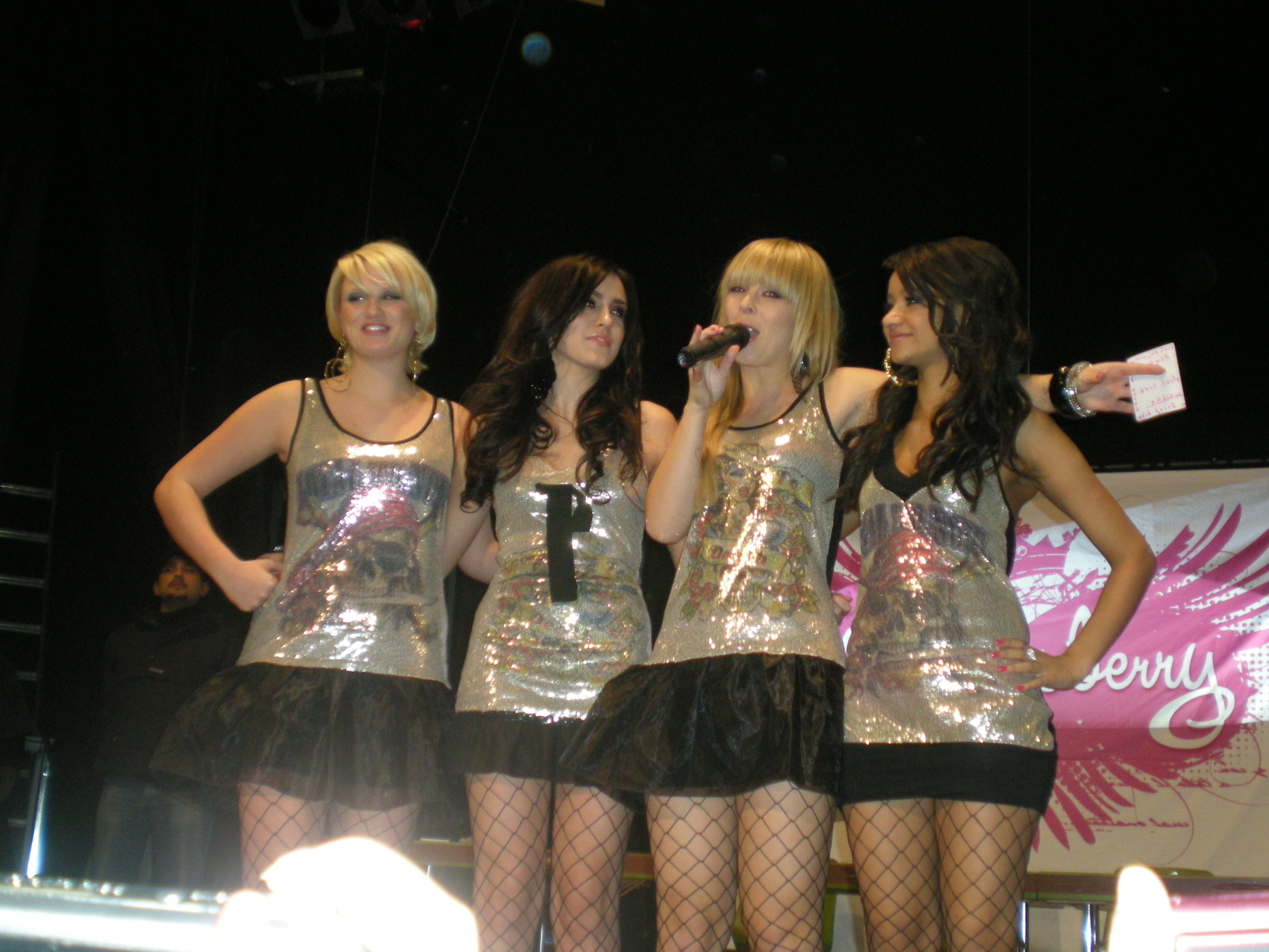 Queensberry at their fanclub meeting at Groß-Gerau